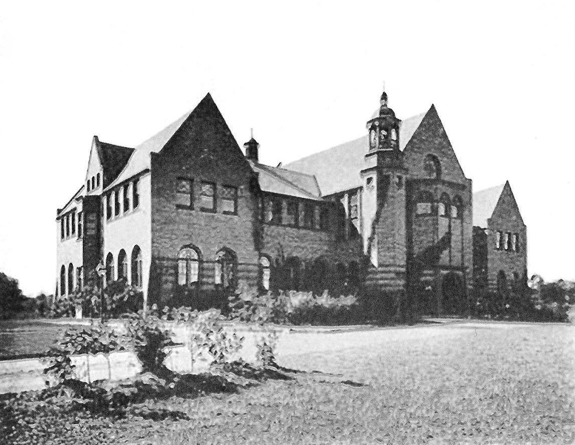 Photograph of Academy House at Lake Forest, Illinois (designed by Pond and Pond)